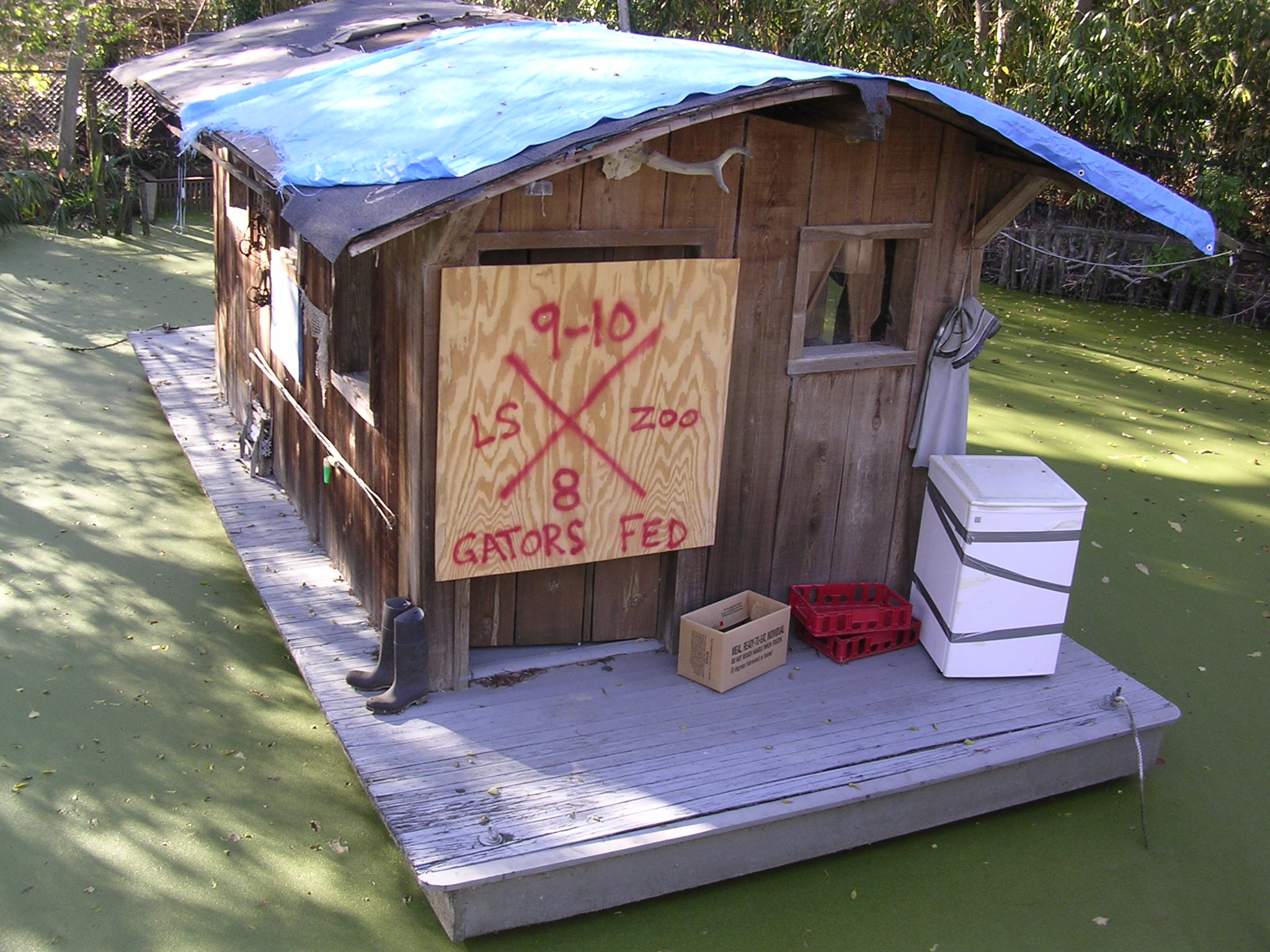 Photograph of Swamp House at the Audubon Zoo Louisiana Swamp exhibit after hurricane Katrina. References to local conditions include blue tarp on roof and "X" marking satirizing the search & rescue team markings on area houses.